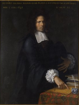 Portrait of G. P. Colonna, member of the Accademia Filarmonica of Bologna and "maestro di cappella" in S. Petronio of Bologna (1674-1695)